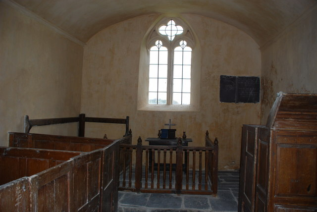 Eglwys S Baglan Llanfaglan St Baglan's Church. The simple Georgian altar table and east window of 961169